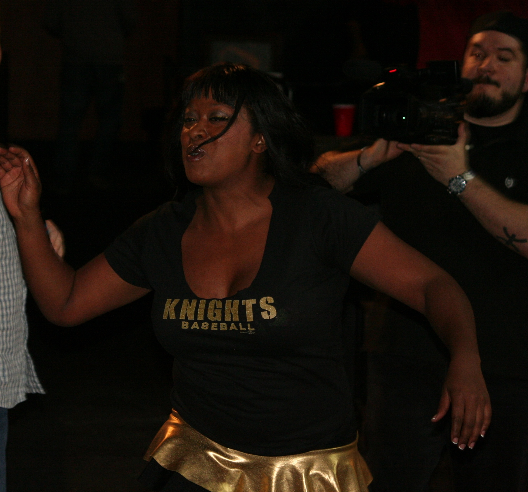 Sojo Bolt at a Queens of Combat event in March 2014.